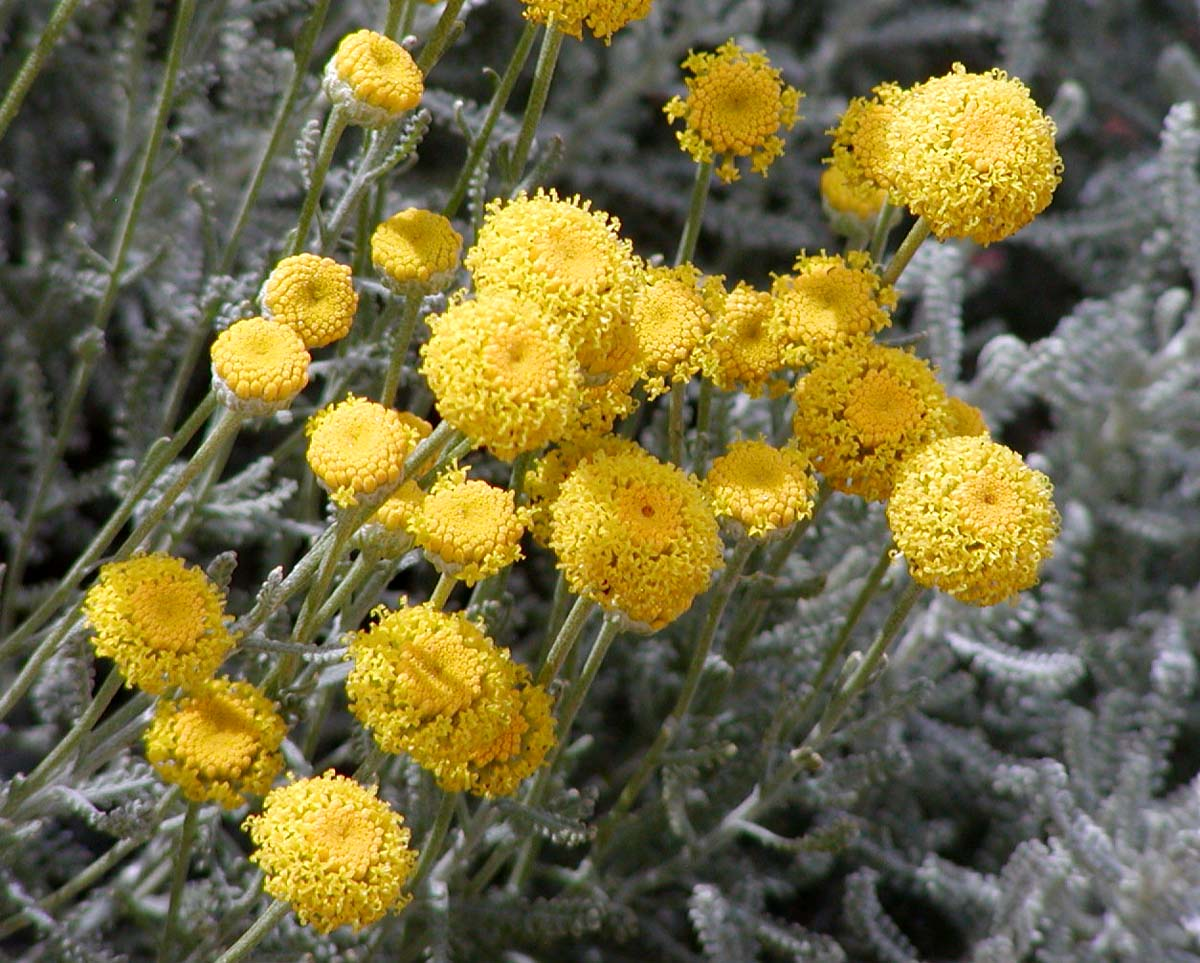 Photo of Santolina chamaecyparissus at the Desert Demonstration Garden in Las Vegas